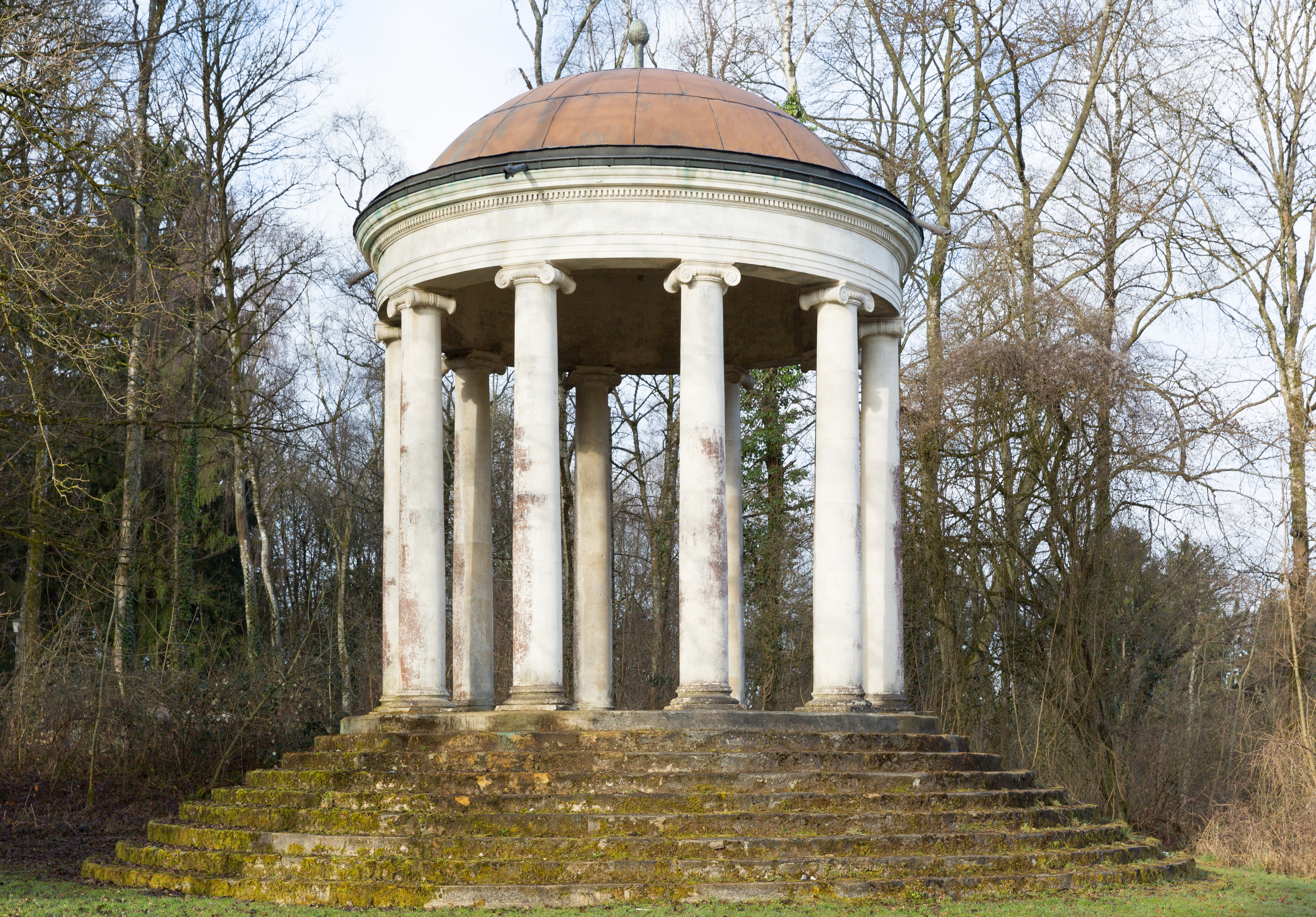 Monopteros at Gaalgebierg, Luxembourg